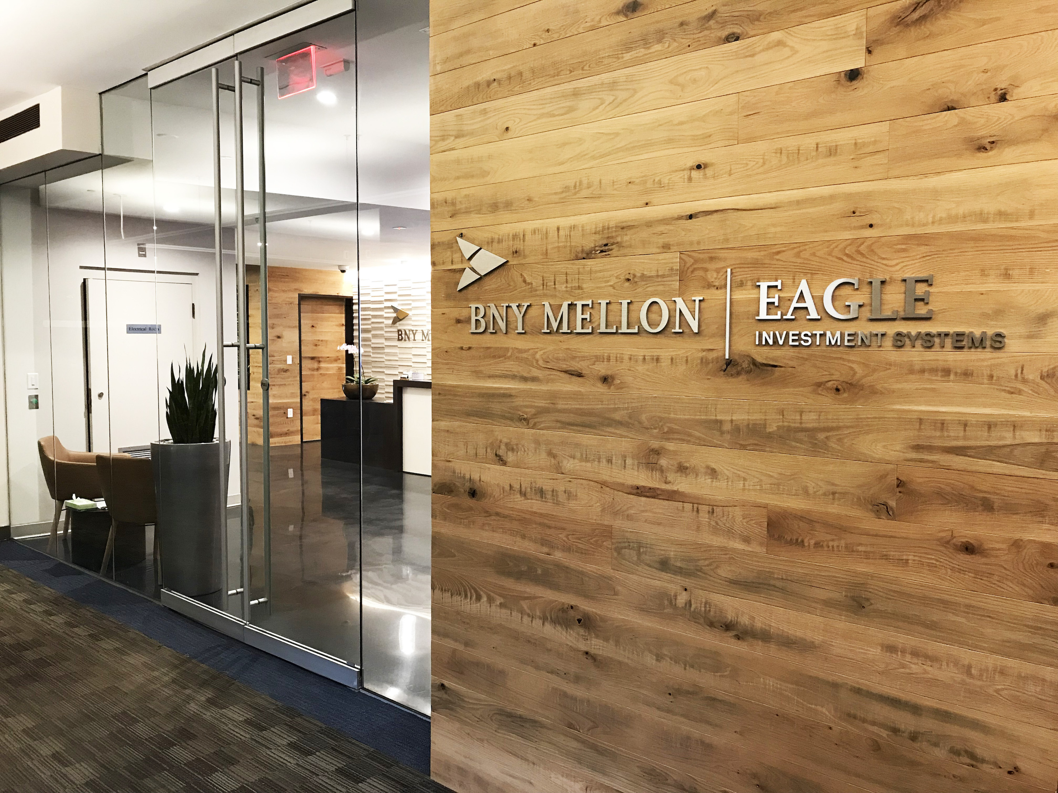 Eagle Investment Systems main entrance, Wellesley, MA.